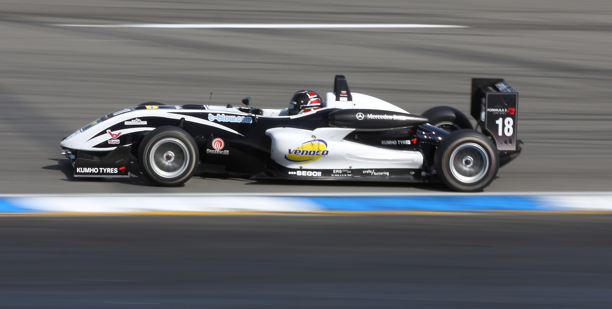 Formula 3 Euroseries, Hockenheimring, #18 Johnny Cecotto jr